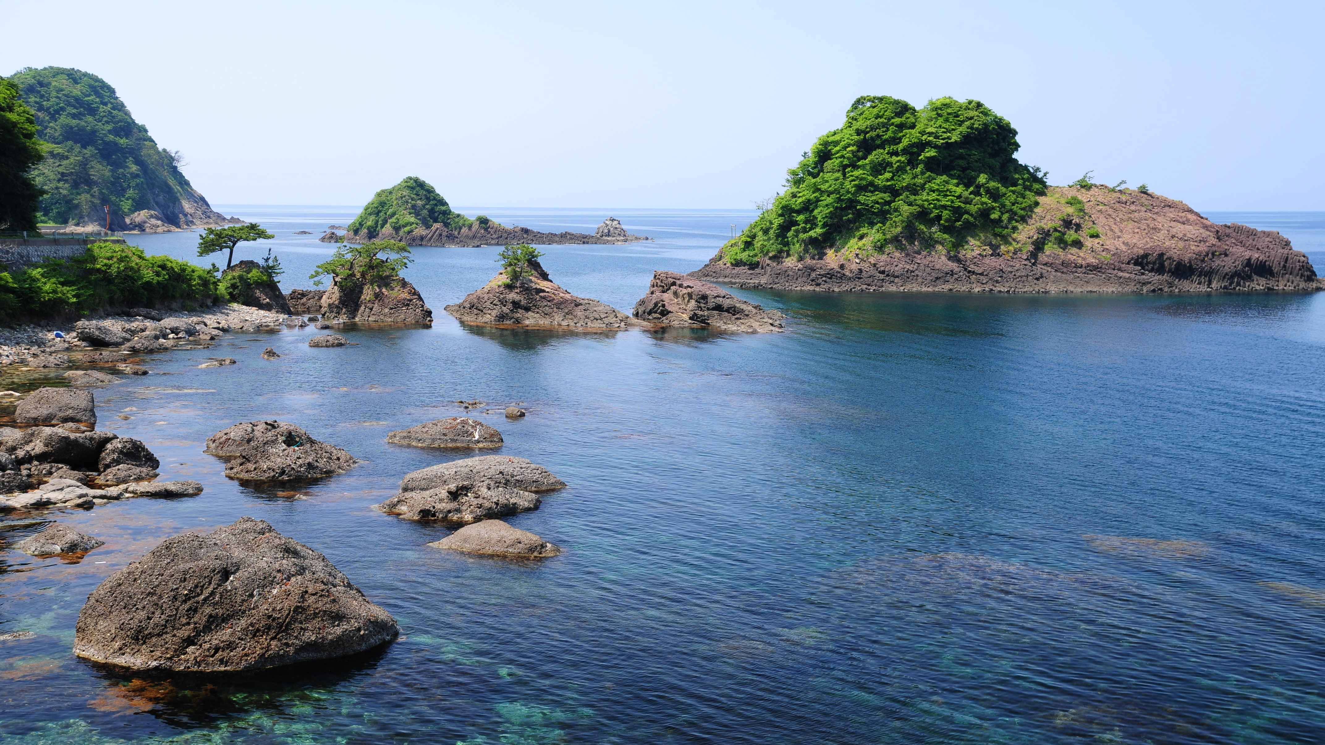 Kasumi Coast Tajima-matsushima